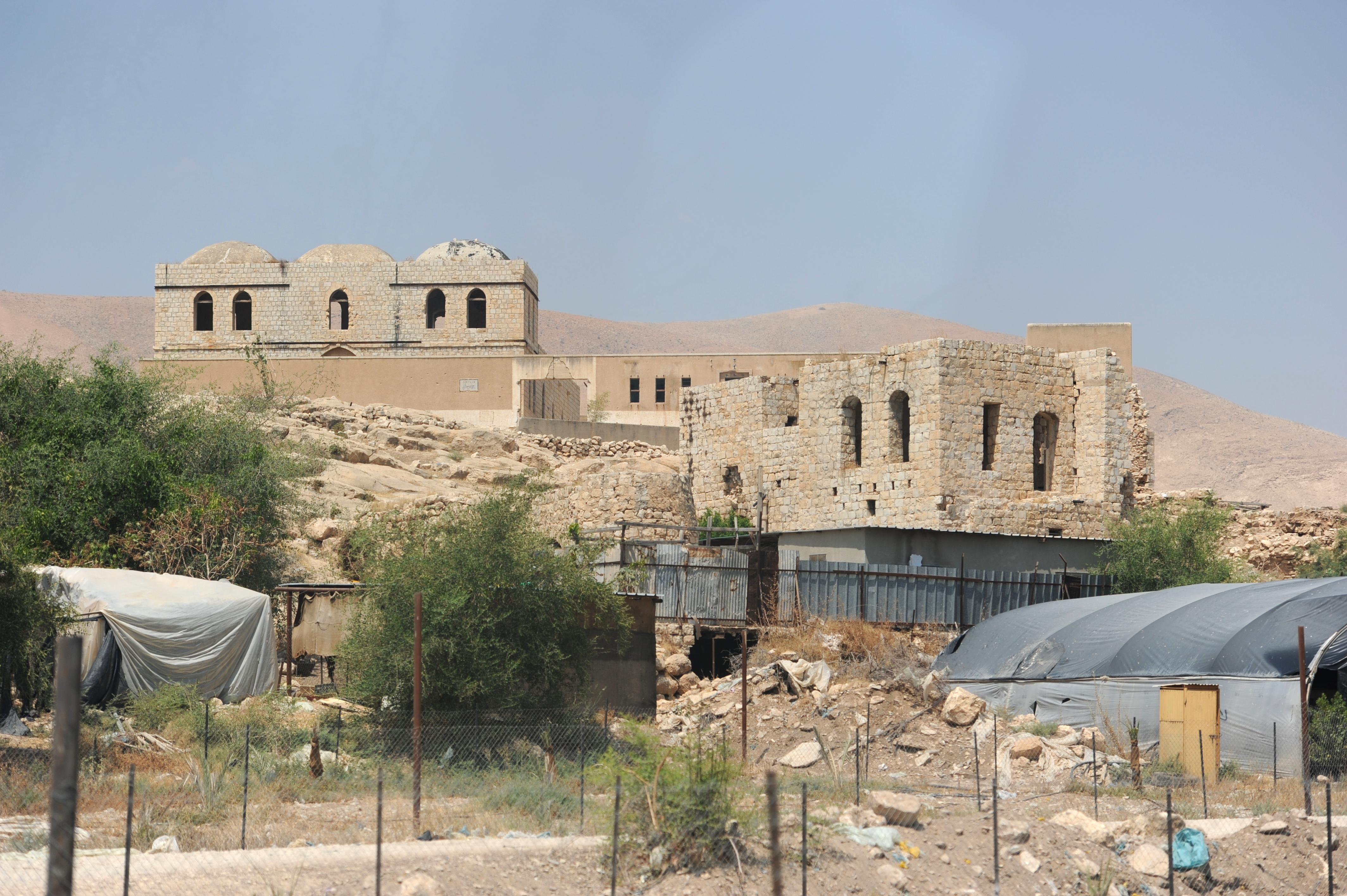 UNRWA's Ghor El Far'a co-educational basic school in Al-Jiftlik, West Bank